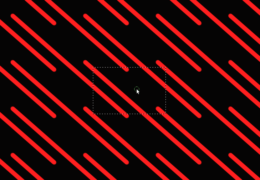 This screenshot shows Krita's wrap-around canvas mode in action. The area surrounded by dash-lines in the center is the editable canvas, the content outside is automatically generated according to the editable area in realtime.